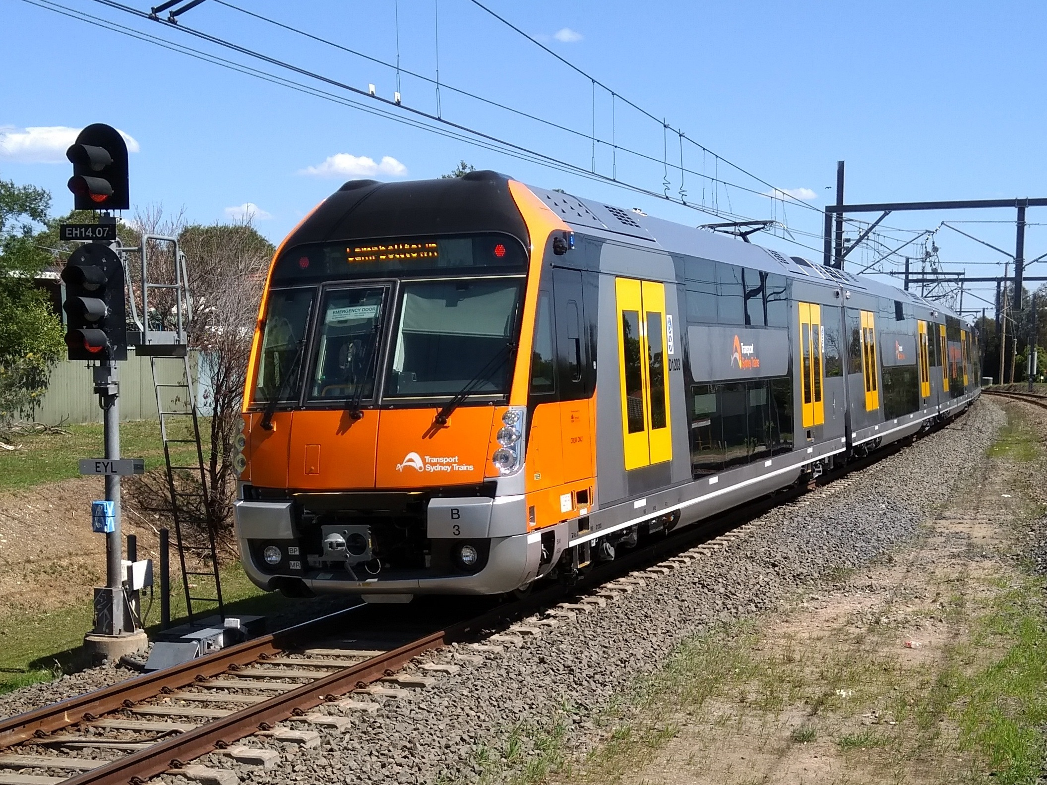 B3 departing Panania.